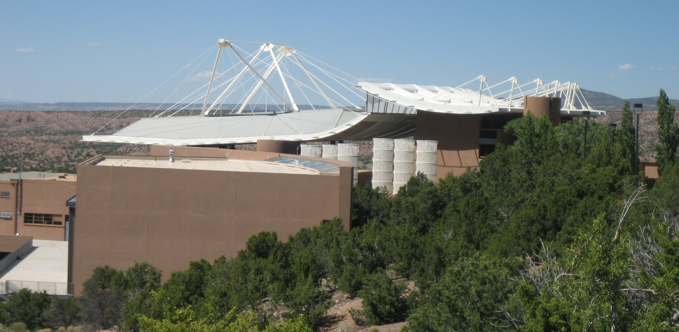 Santa Fe Opera House, built 1998, showing unusual roofline